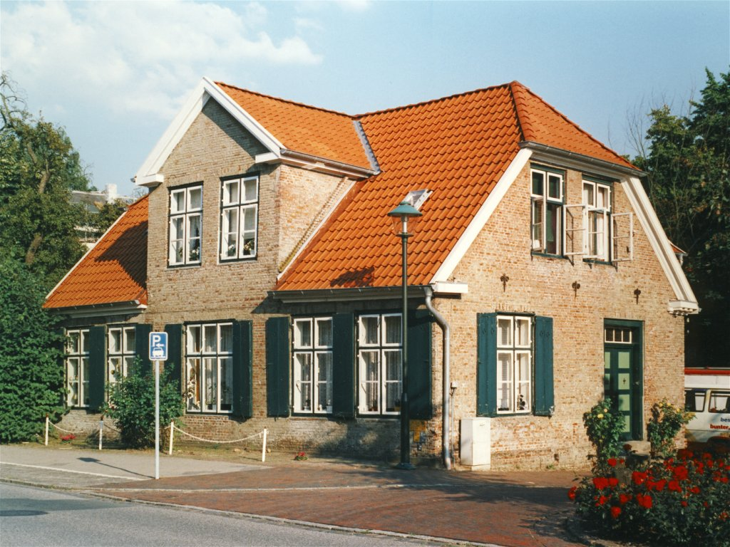 LMonastery, Uetersen (Germany),house of convent-lady, photo 1995